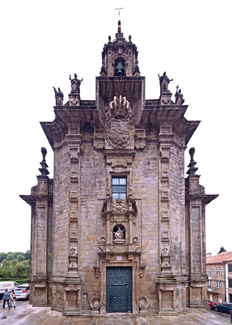 Church of San Froitoso